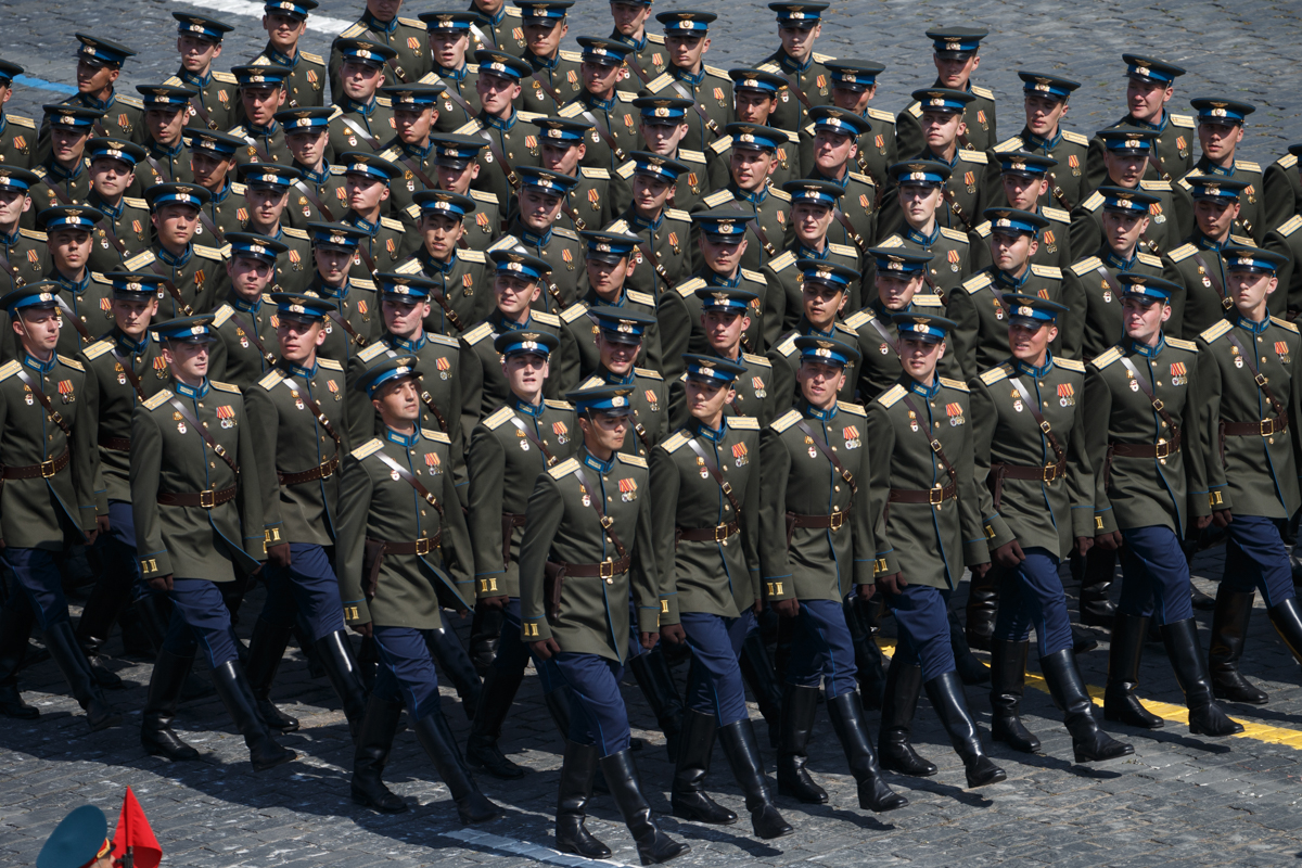 Парад Победы в Москве, посвященный 75-й годовщине Победы в Великой Отечественной войне